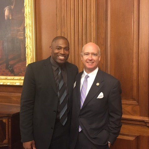 Got to meet with Alabama standout Shaun Alexander today. #RTR #1999SECChampions